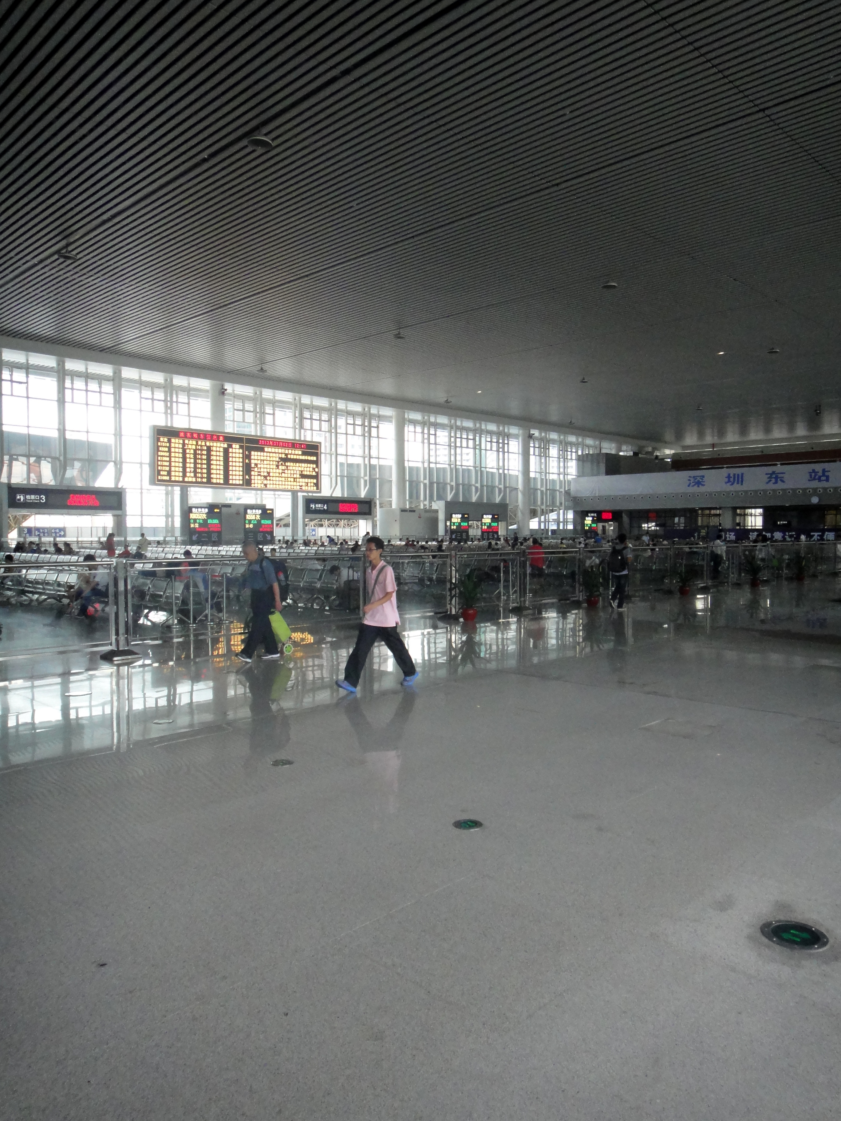 Waiting Hall for Shenzhen East Railway Station